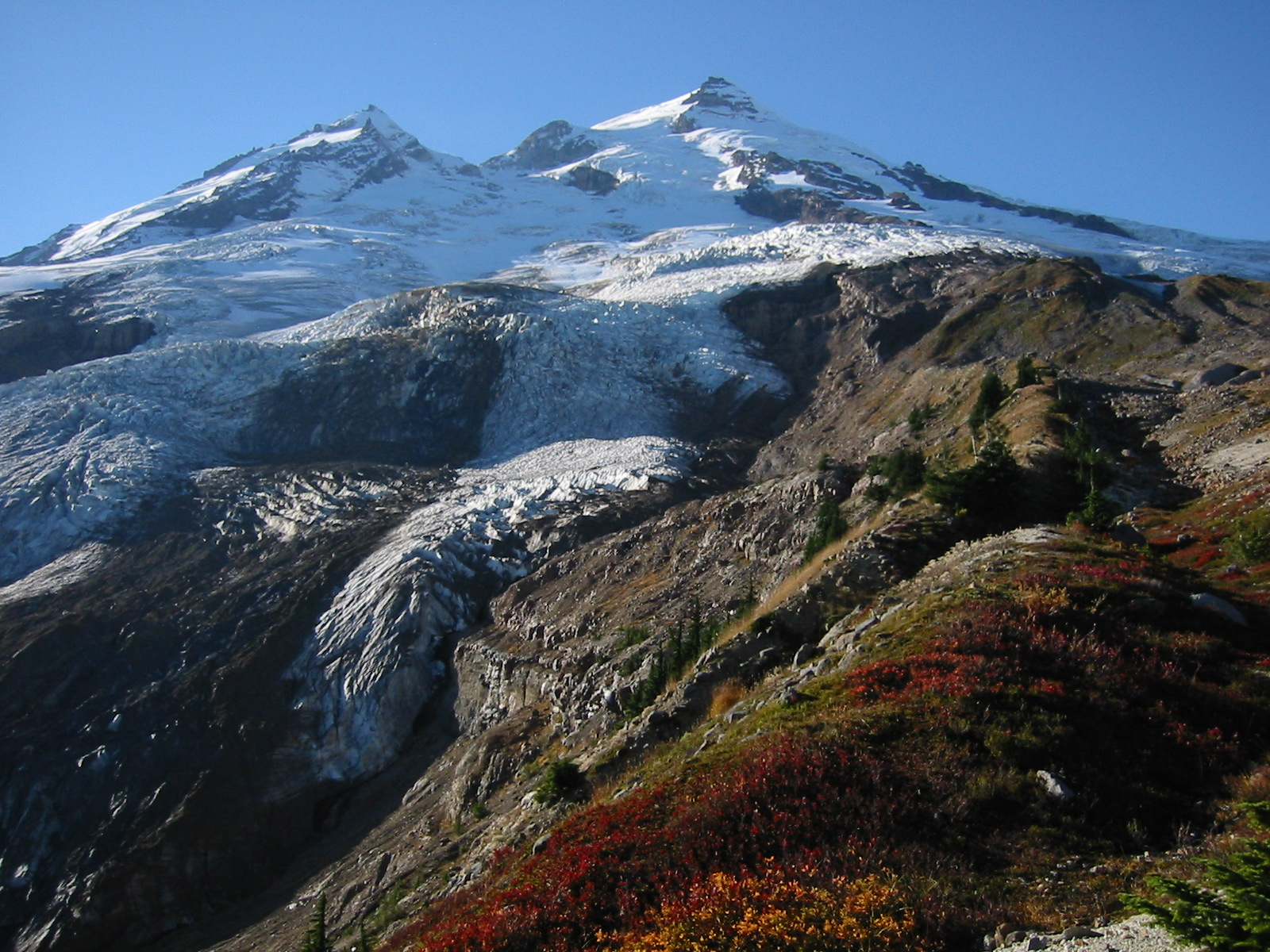 The Boulder Glacier with the Sherman (left) and Grant (right) Peaks of Mount Baker behind. Old lateral moraines are visible in the right foreground.